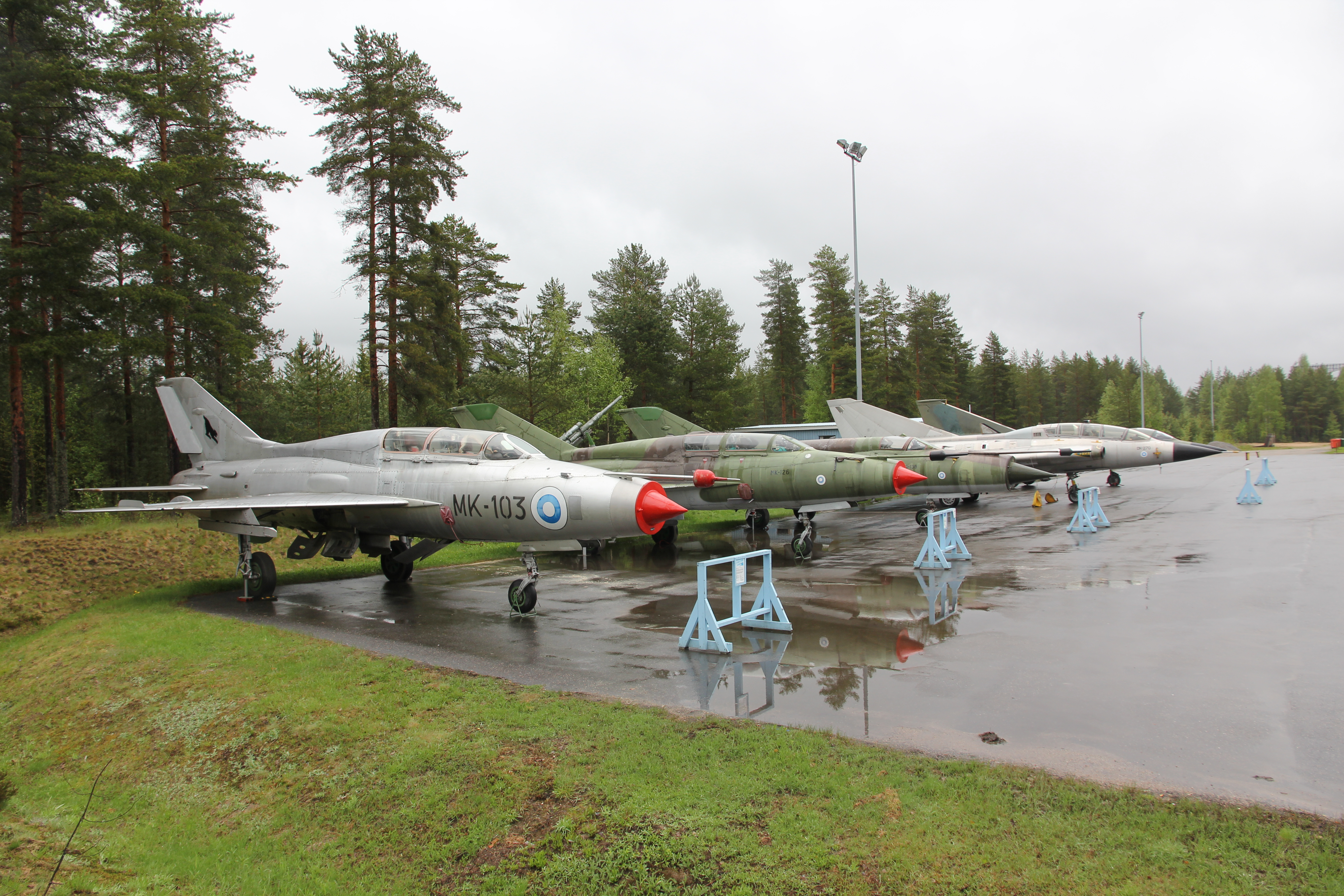 Aircraft on display outdoors in the Aviation Museum of Central Finland. From right: Saab 35FS Draken (DK-241), Saab 35CS Draken (DK-270), MiG-21bis (MG-138) ("Ylli"), MiG-21UM (MK-126) and MiG-21U (MK-103).